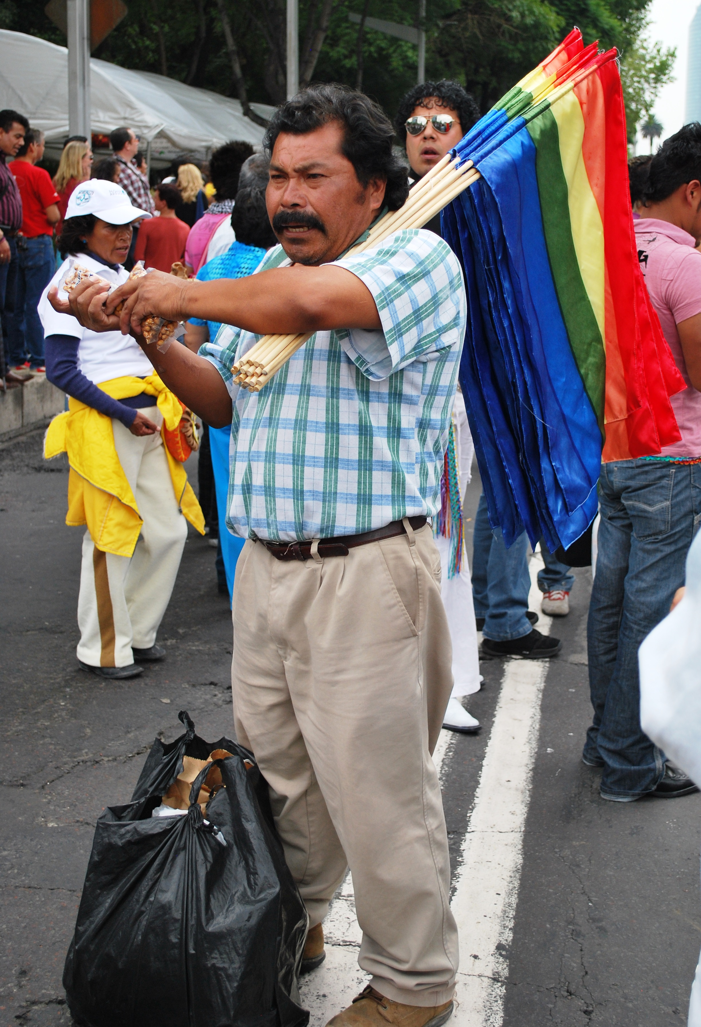 Street vendor at the 2009 Marcha Gay in Mexico City